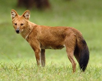 Cuon alpinus (Dhole)